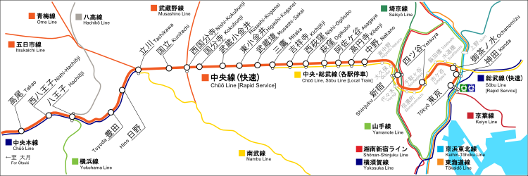 Map of JR Chuo Line (Tokyo - Takao)